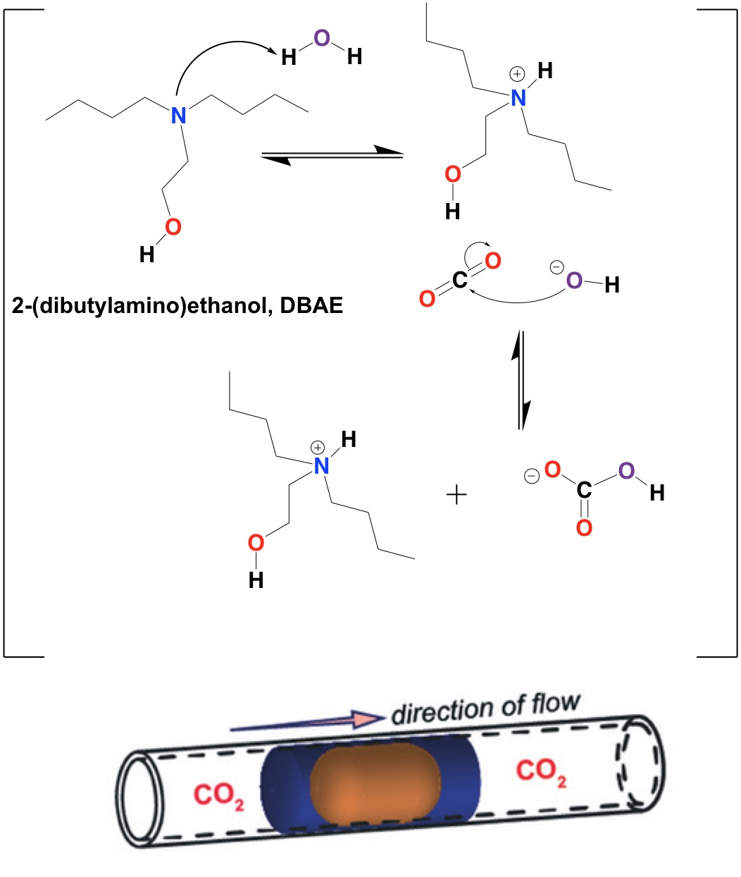 DBAE in Oscillatory Microfluidic